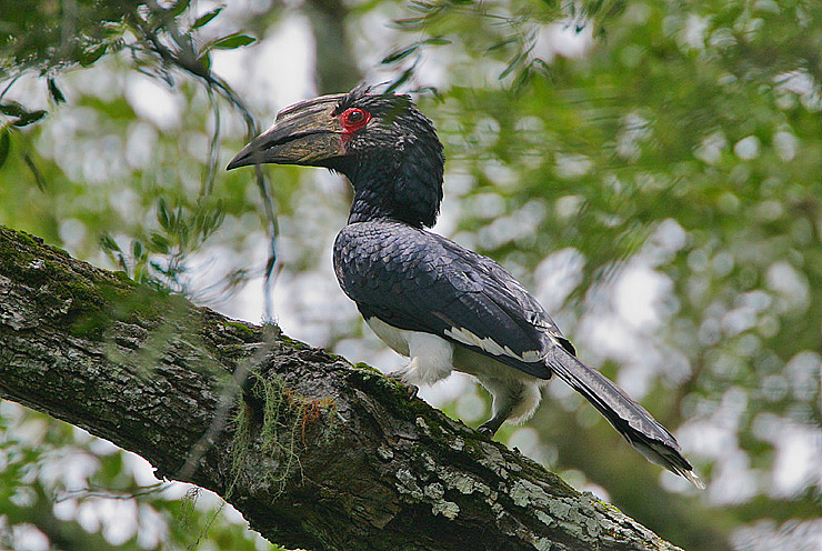 This is a female.